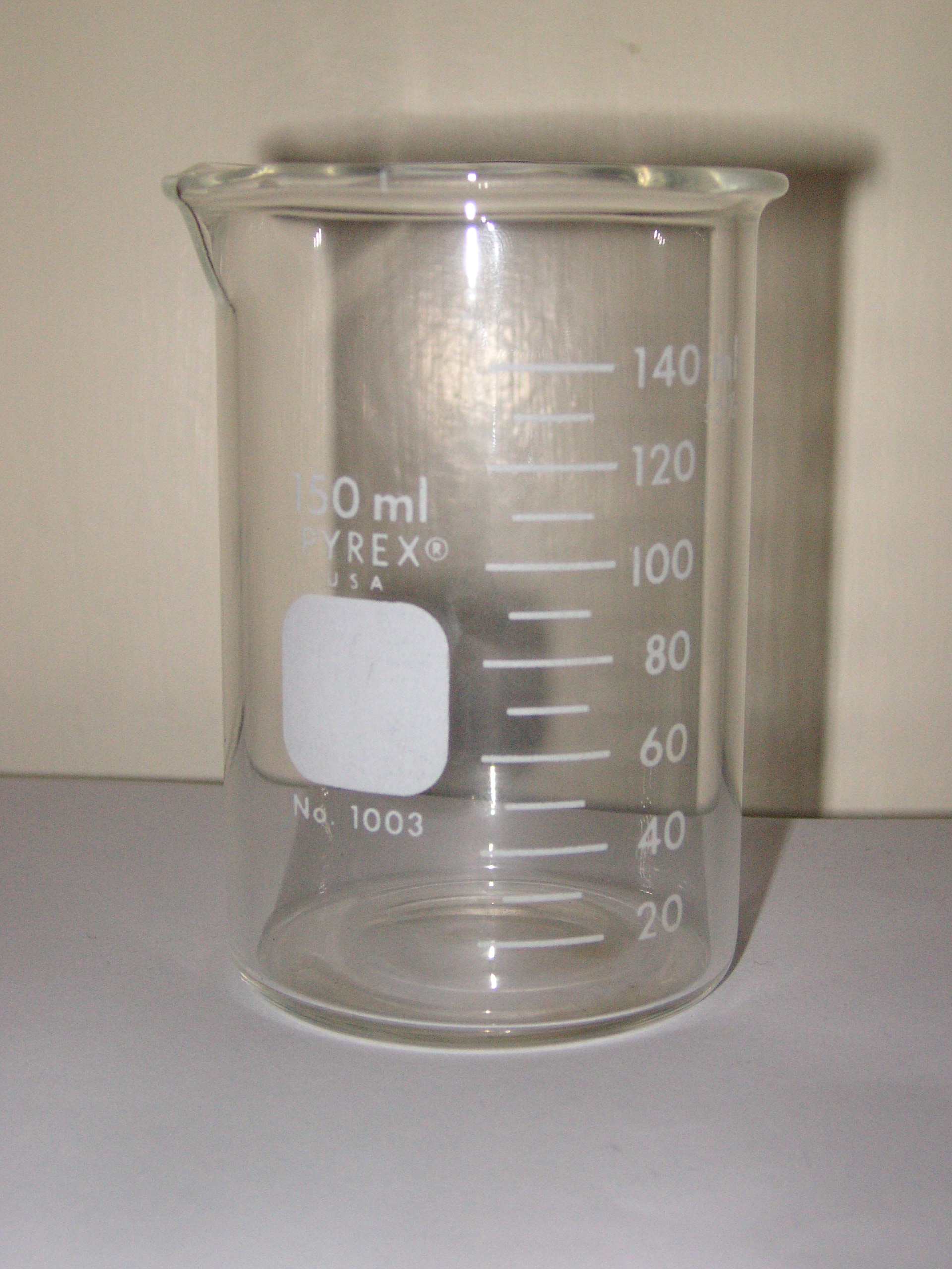 Beaker